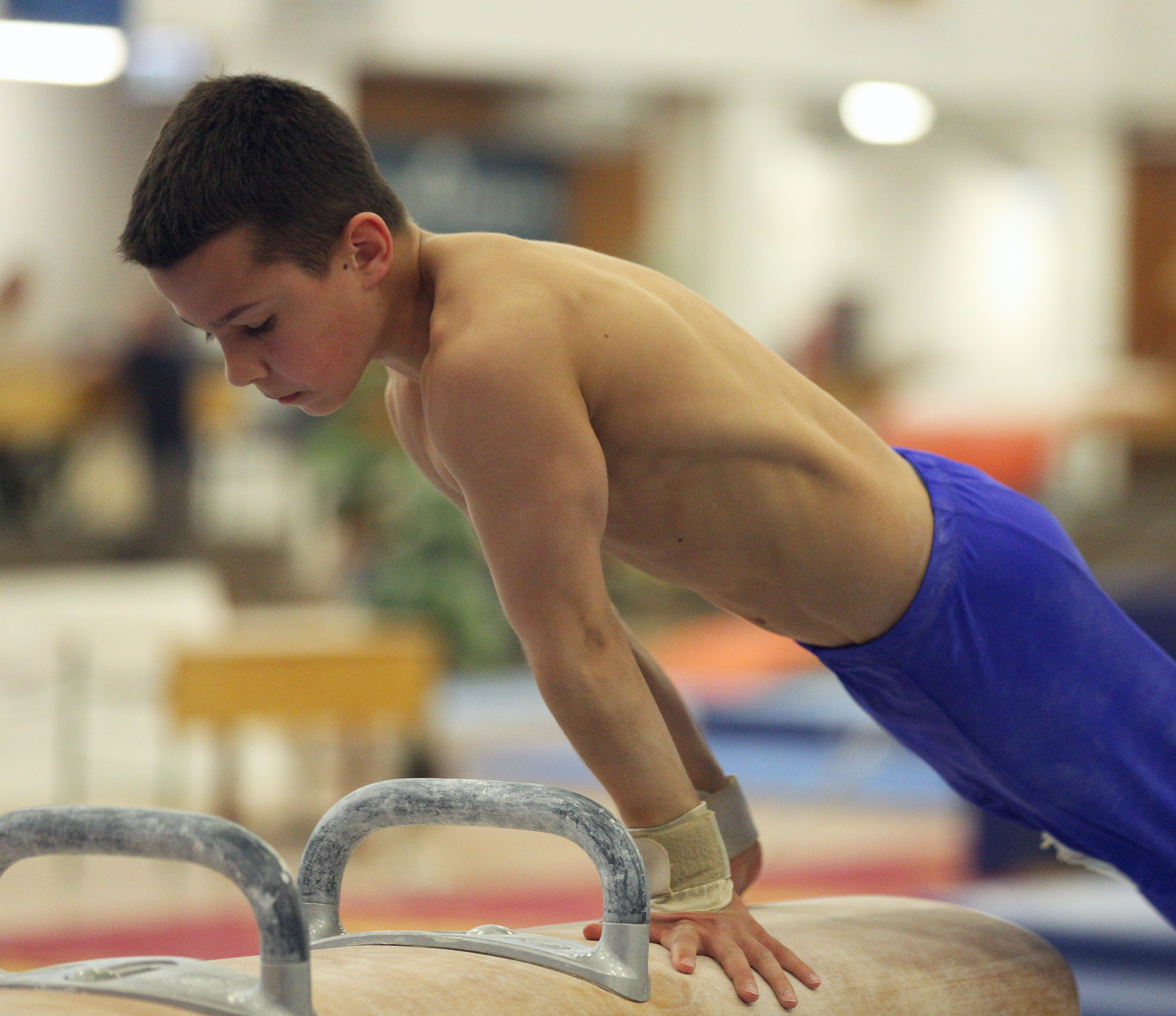 Pommel horse exercise during the training at the 5th International Junior Budapest Cup on 24 May 2019. Depicted: Ivan Sevruk.